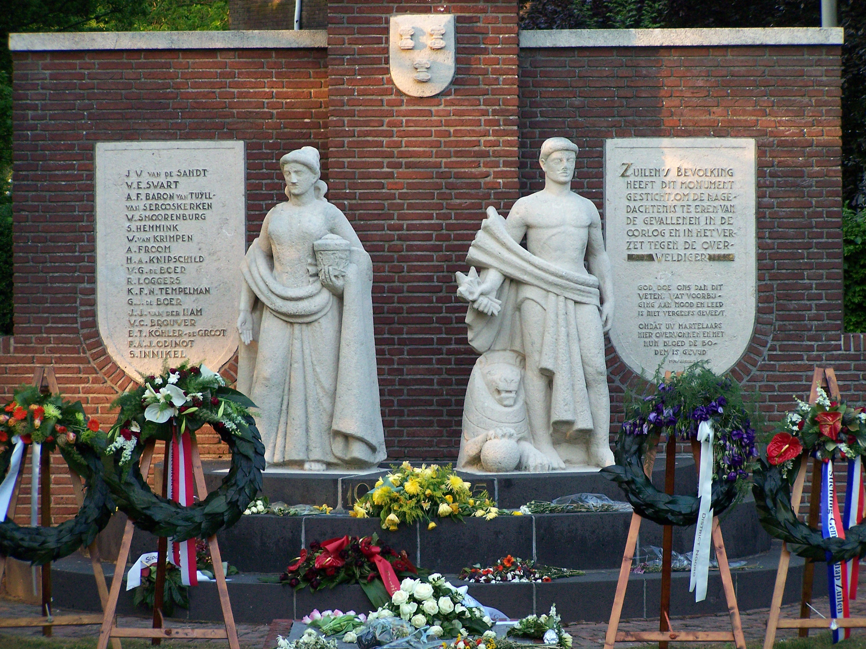 Detail of the World War II Memorial at the Prins Bernhardplein in Utrecht (former municipality Zuilen). The Memorial was erected in 1949 and designed by Wim van Hoorn. The sculptures are made by Jo Uiterwaal. At the right side there's a poem of Muus Jacobse.